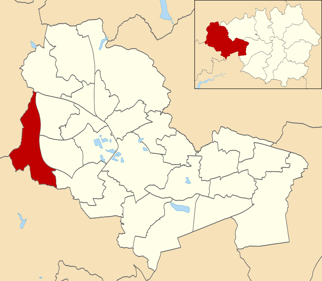 Map showing the location of Orrell ward within Wigan Metropolitan Borough Council